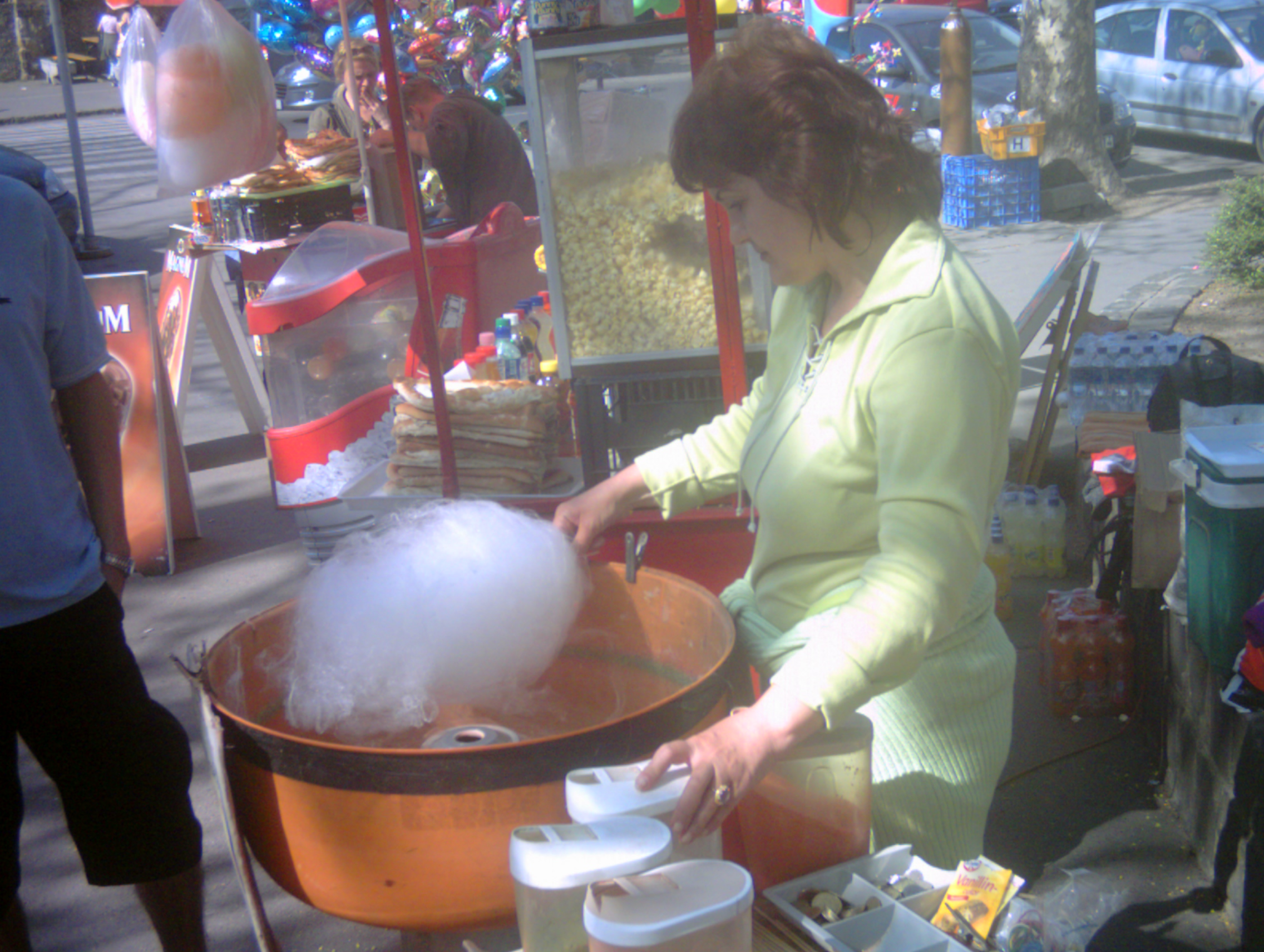 A woman making and selling cotton candy/candy floss, Budapest, Hungary, April 2007